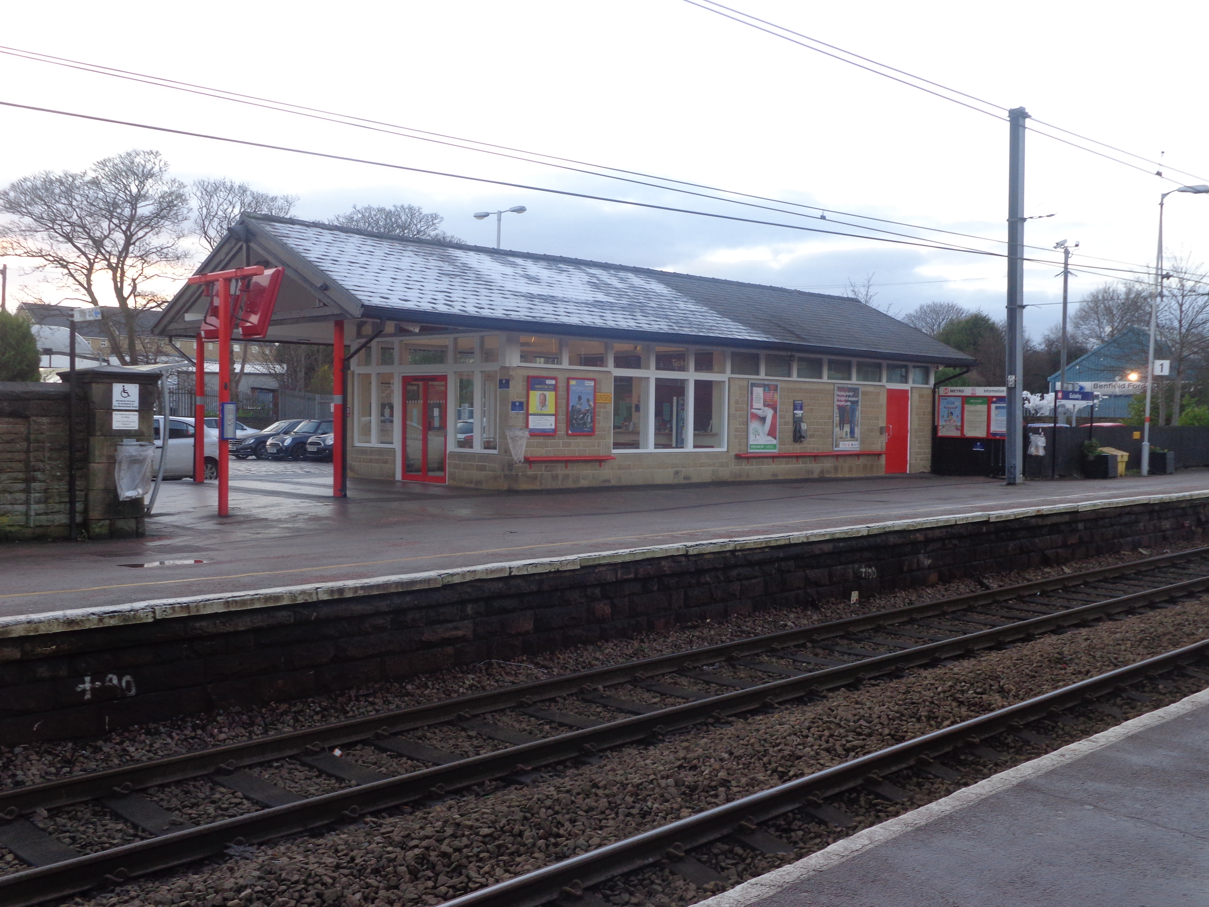 Station buildings, Guiseley railway station, Guiseley, West Yorkshire. These buildings contain a ticket office and waiting room. Taken on the afternoon of Tuesday the 30th of December 2014.